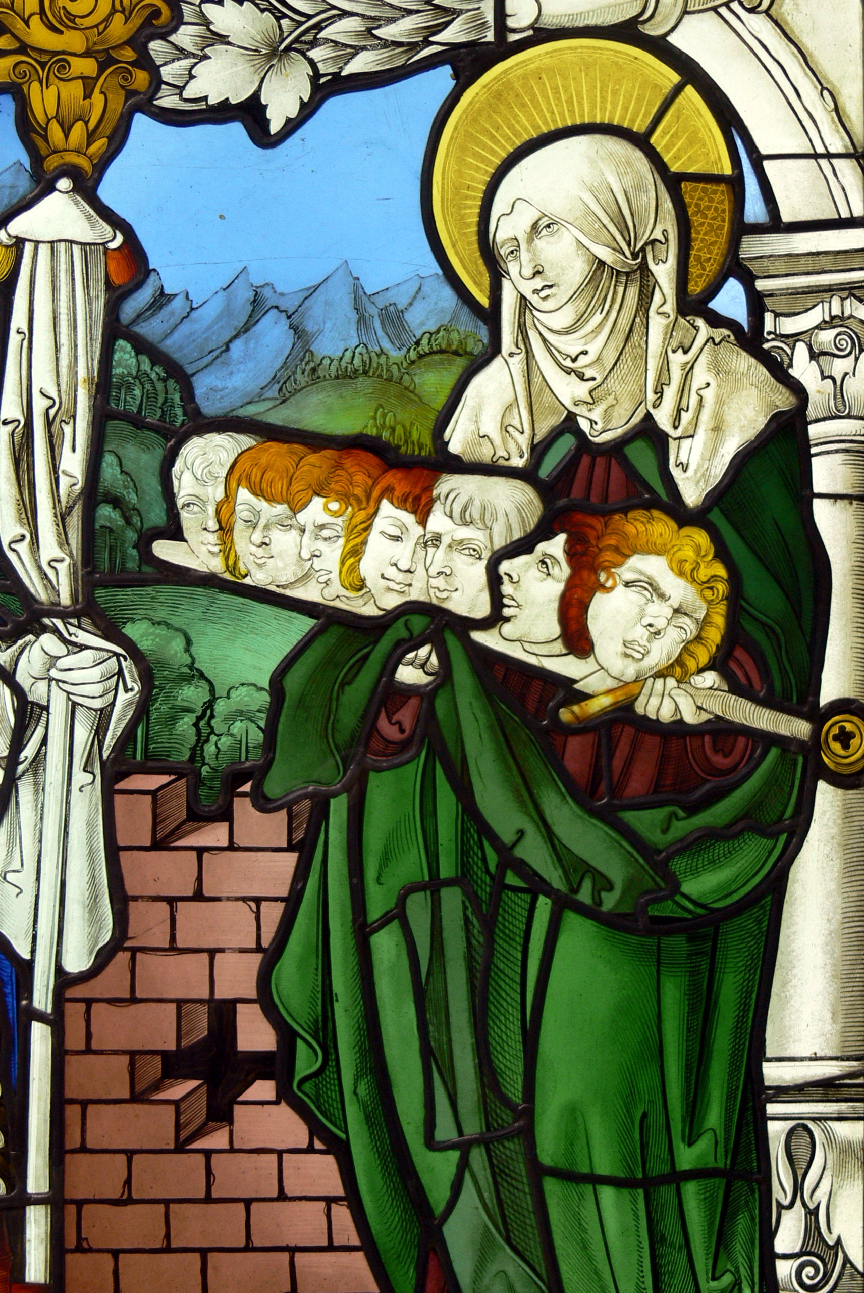 German National Museum ( Nuremberg / Germany ). Stained glass panel ( 1517 ) showing Ss. Erasmus and Felicity, made by Hirsvogel workshop in Nuremberg - detail: Saint Felicity.